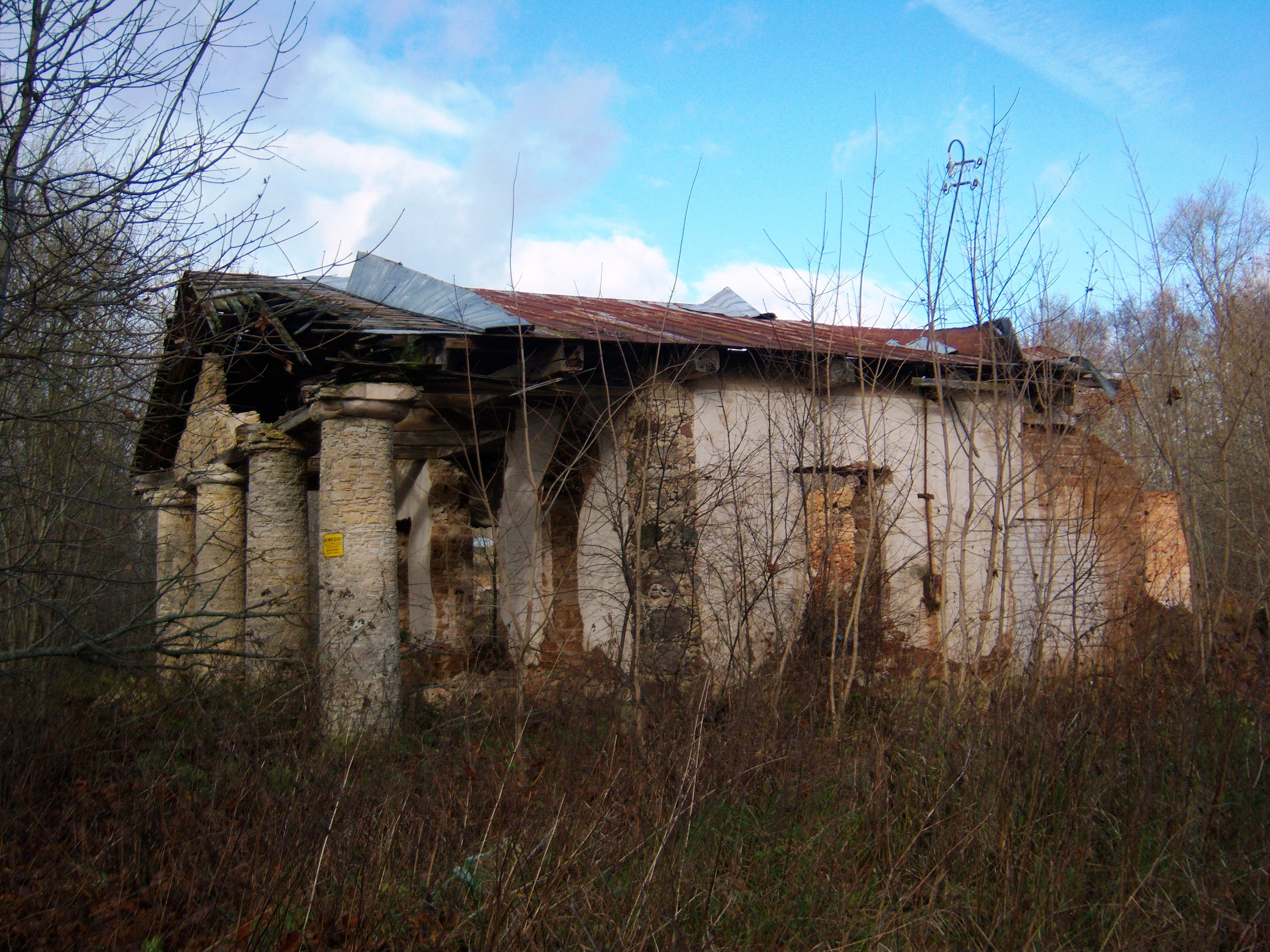 Dolomite building ruins in Stirniškiai, Kupiškis District, Lithuania